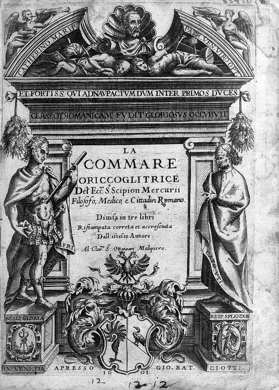 Title page. Rare Books Keywords: Obstetrics; Scipione [Girolamo] Mercurio